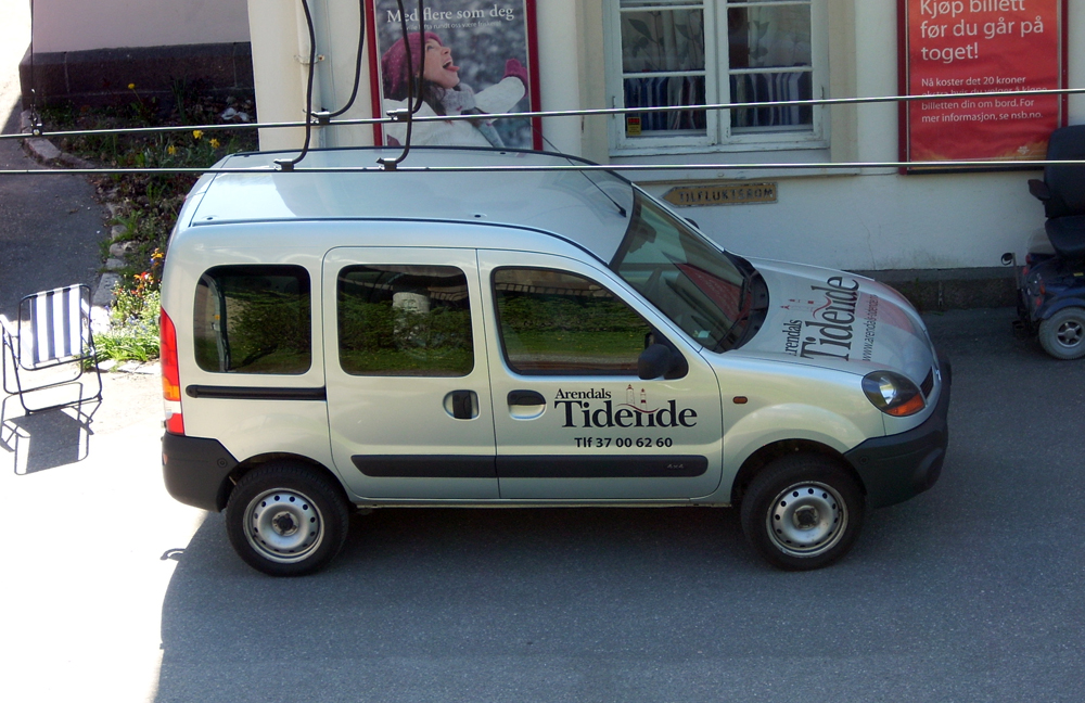 Newspaper car (Renault Kangoo) in Arendal, Norway.